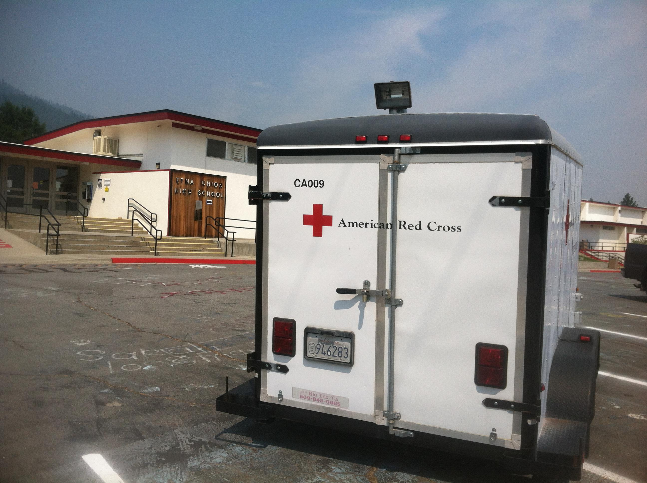 A Red Cross trailer is stationed outside the Etna High School in Sawyers Bar, CA to assist local residents at the Salmon River Complex Fire. The Salmon River Complex Fire in the Klamath National Forest near Sawyers Bar, CA began on Jul. 31, 2013 was manmade has consumed approximately 9,005 acres and is 16% contained. Photo by Steve Kliest.